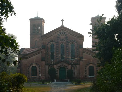 Church at Bareilly